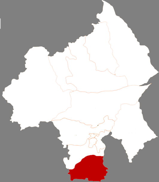 Location of Ningcheng County in Chifeng City, China